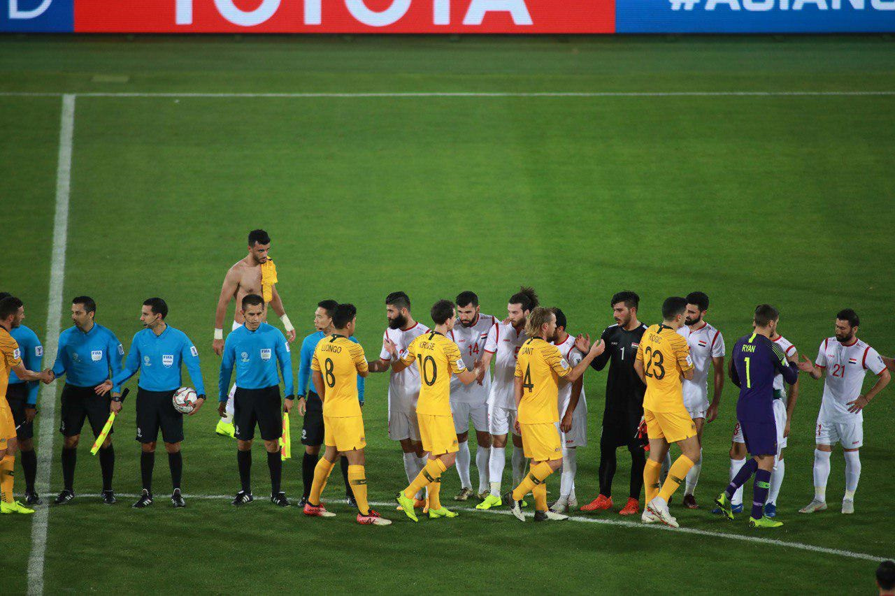 Australia & Syria Group B match, 2019 AFC Asian Cup